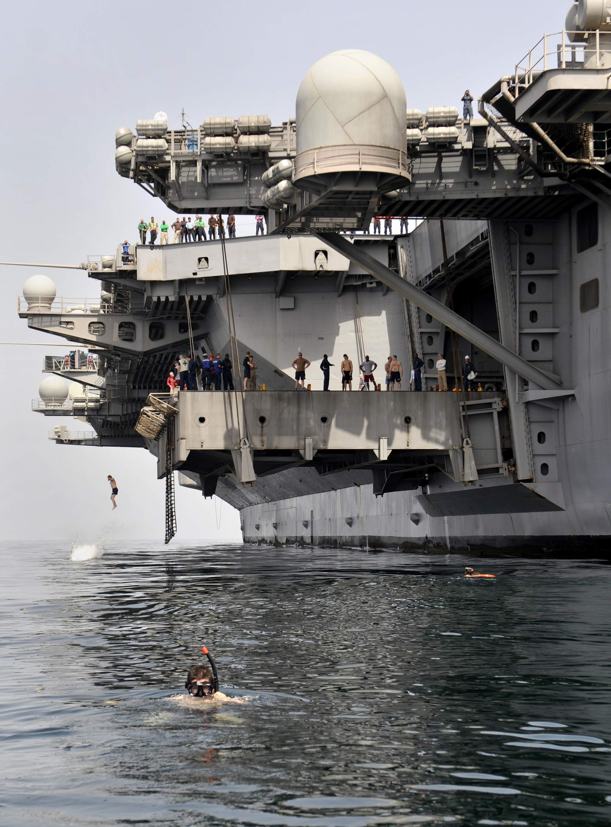 120323-N-OK922-139 ARABIAN SEA (March 23, 2012) Sailors jump off aircraft elevator No. 4 during a swim call aboard the Nimitz-class aircraft carrier USS Carl Vinson (CVN 70). Carl Vinson and Carrier Air Wing (CVW) 17 are deployed to the U.S. 5th Fleet area of responsibility. (U.S. Navy photo by Mass Communication Specialist 3rd Class Rosa A. Arzola/Released)